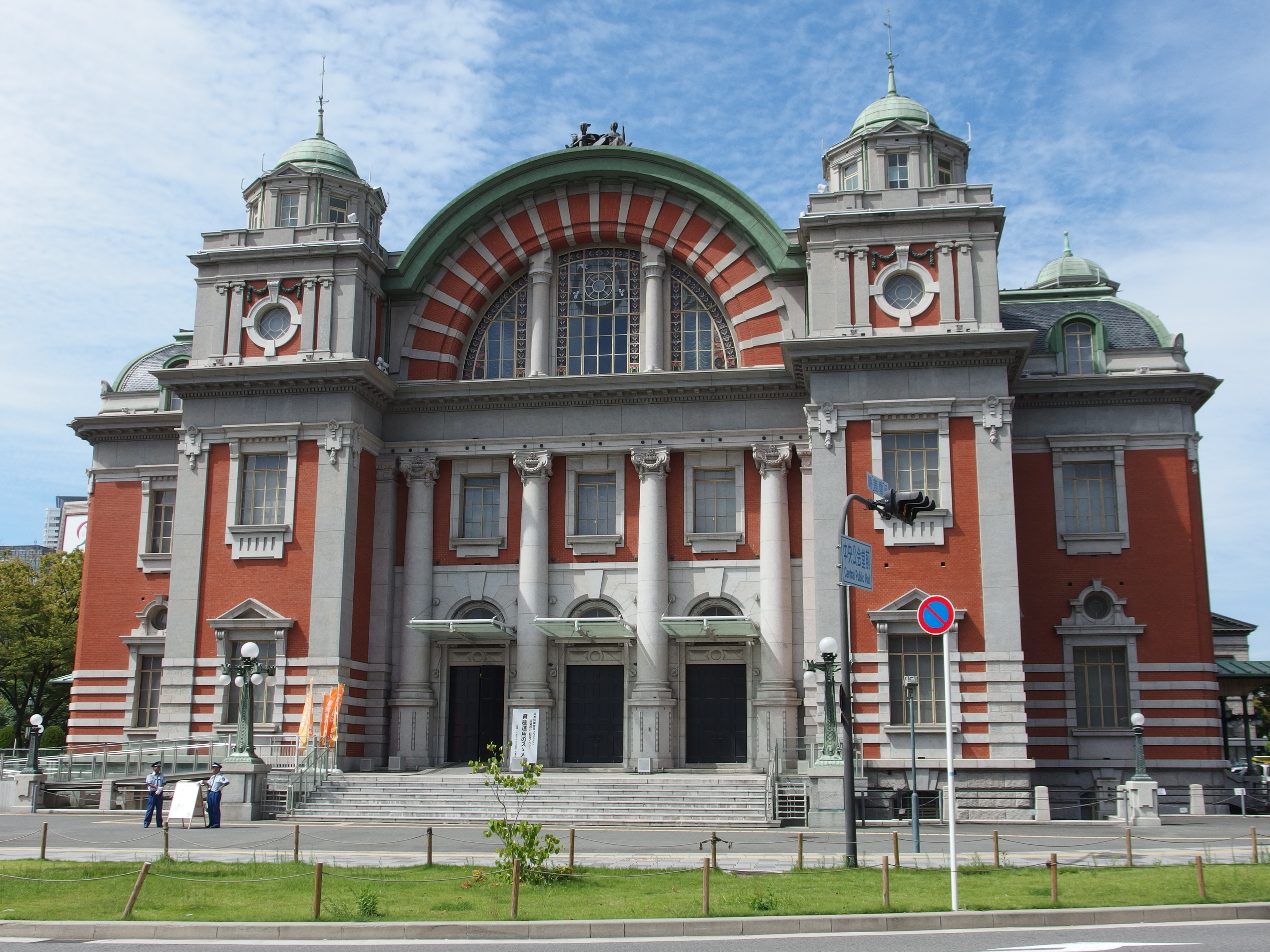 Osaka Central Public Hall, Osaka, Osaka Prefecture, Japan. It was built in 1918.